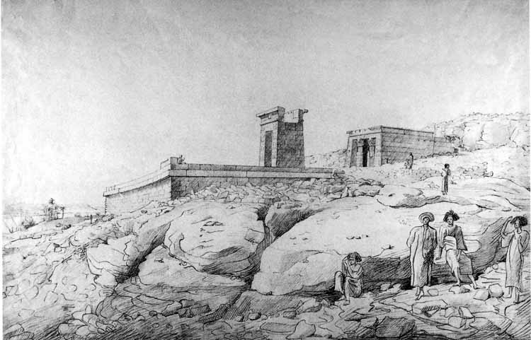 Drawing of the Temple of Dendur in its original location by Henry Salt (1780–1827). The drawing was made by Salt during an expedition to southern Egypt and northern Sudan in 1819. The digital version of the drawing is taken from the web site created and maintained by Simon Hayter, and is copyright free.